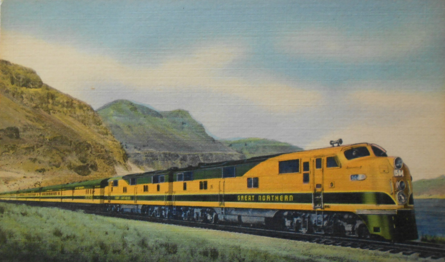 Postcard photo promoting the Great Northern Railway's "new Empire Builder". The train was streamlined circa 1947, and totally re-outfitted again in 1951. This seems to be the 1947 train.